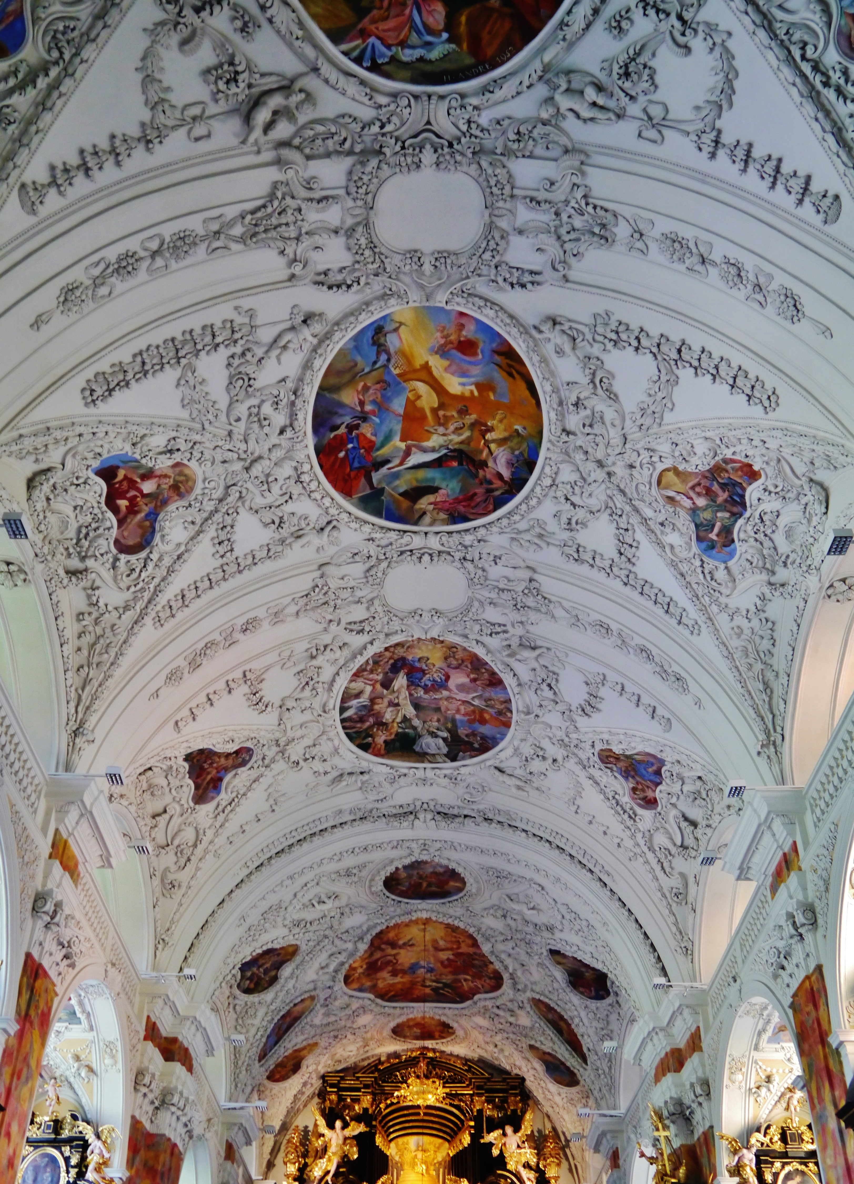 Vault of Wilten Abbey Church, Innsbruck/Quarter Wilten, Tyrol, Austria